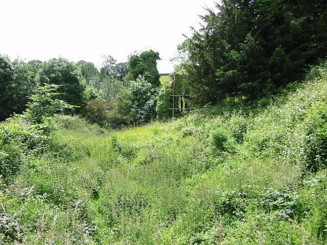 Richards Castle. Richards Castle, ditch around motte. This was built by the Normans before the Conquest. smr record at